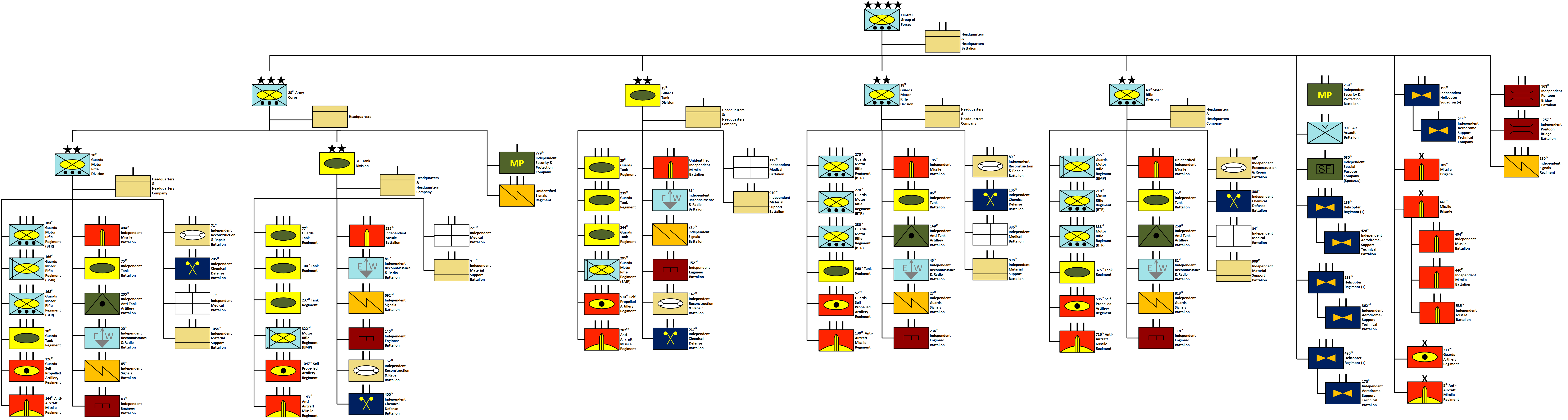 Organization of Soviet Group of Forces Center as of 1988